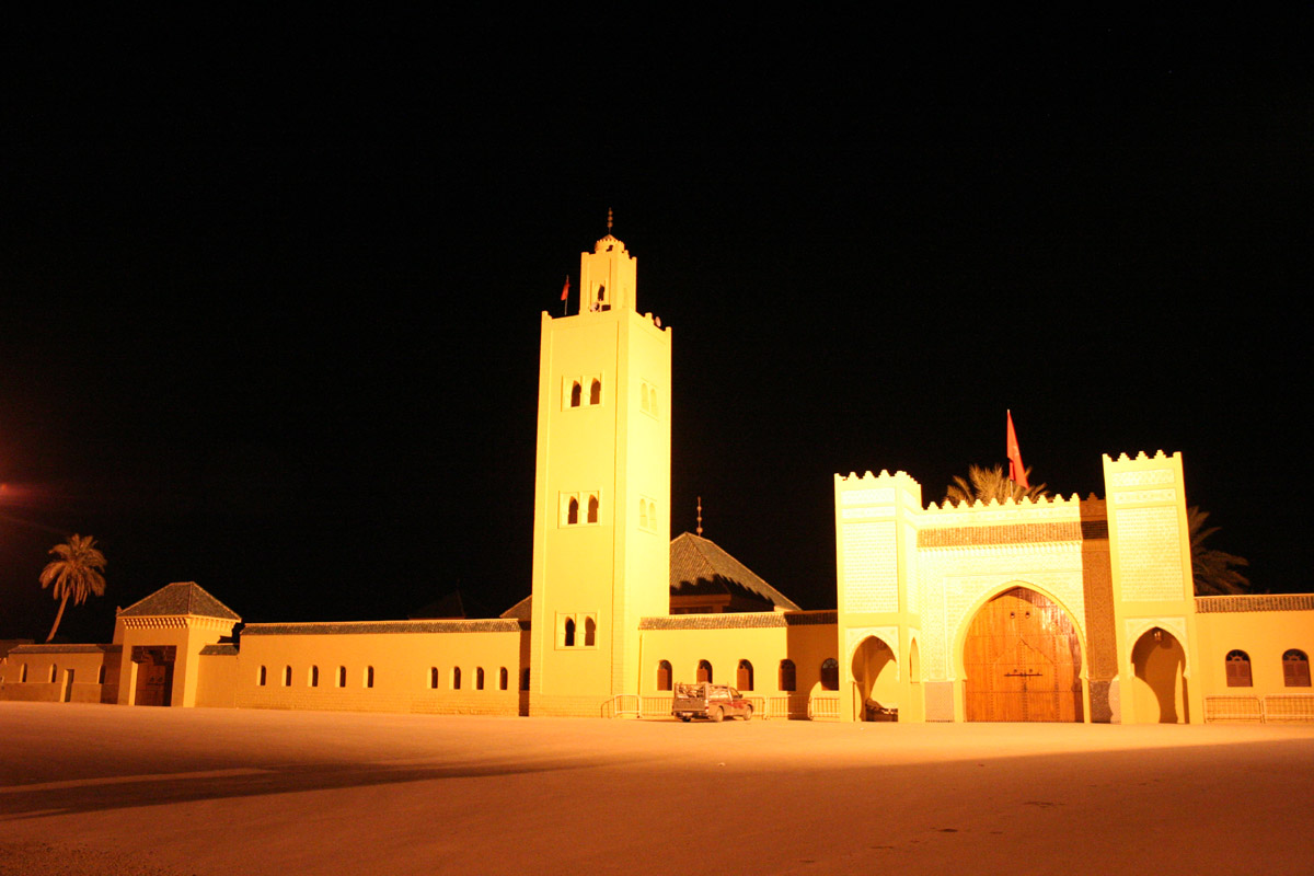 Moulay Ali Cherif Mausoleum in Rissani south east Morocco